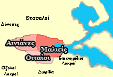 Map of Ancieny Fthiotis, Greece